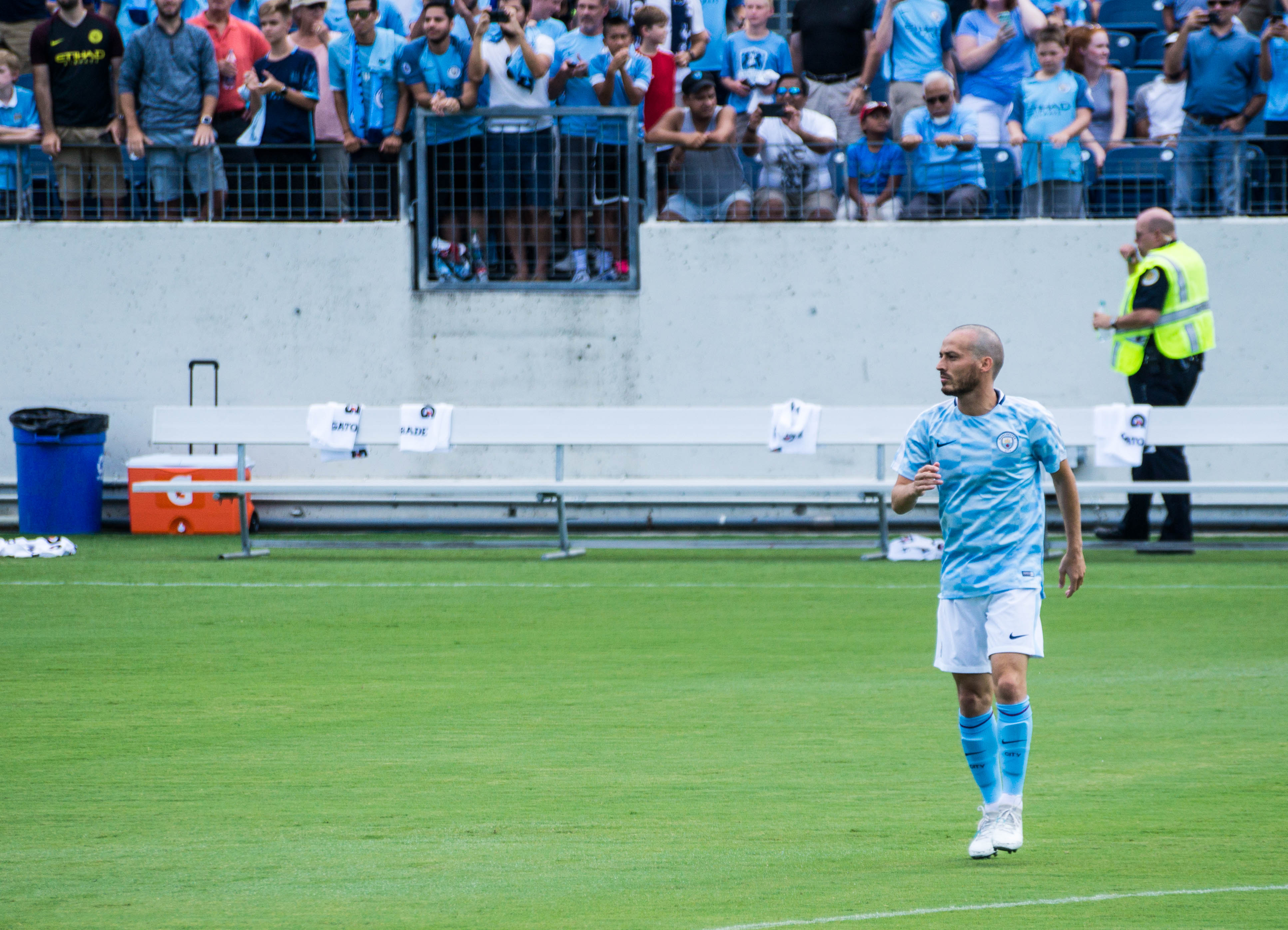 Manchester City vs Tottenham Hotspur at Nissan Stadium in Nashville, TN